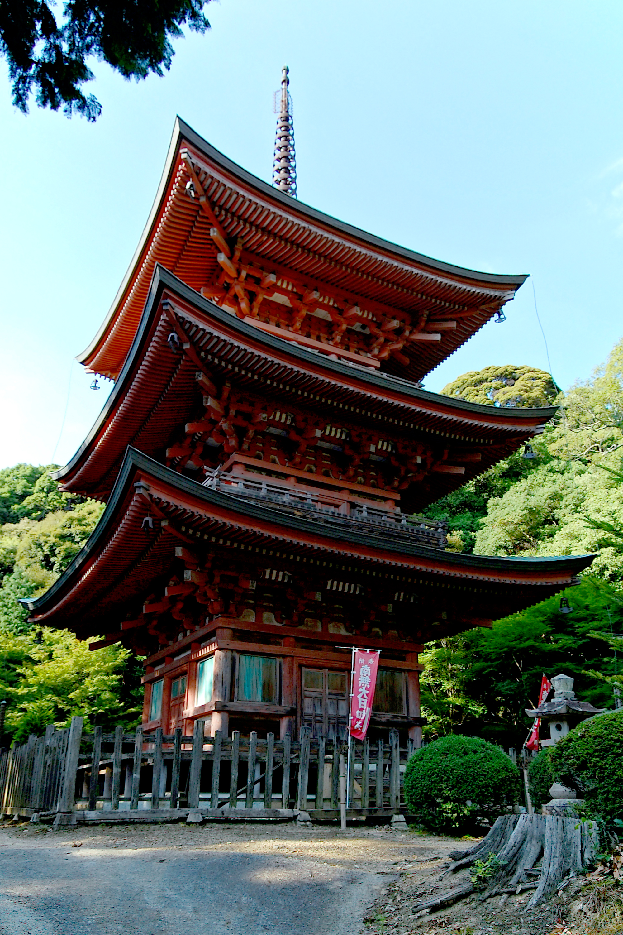 Shakubu-ji in Kobe, Hyogo prefecture, Japan